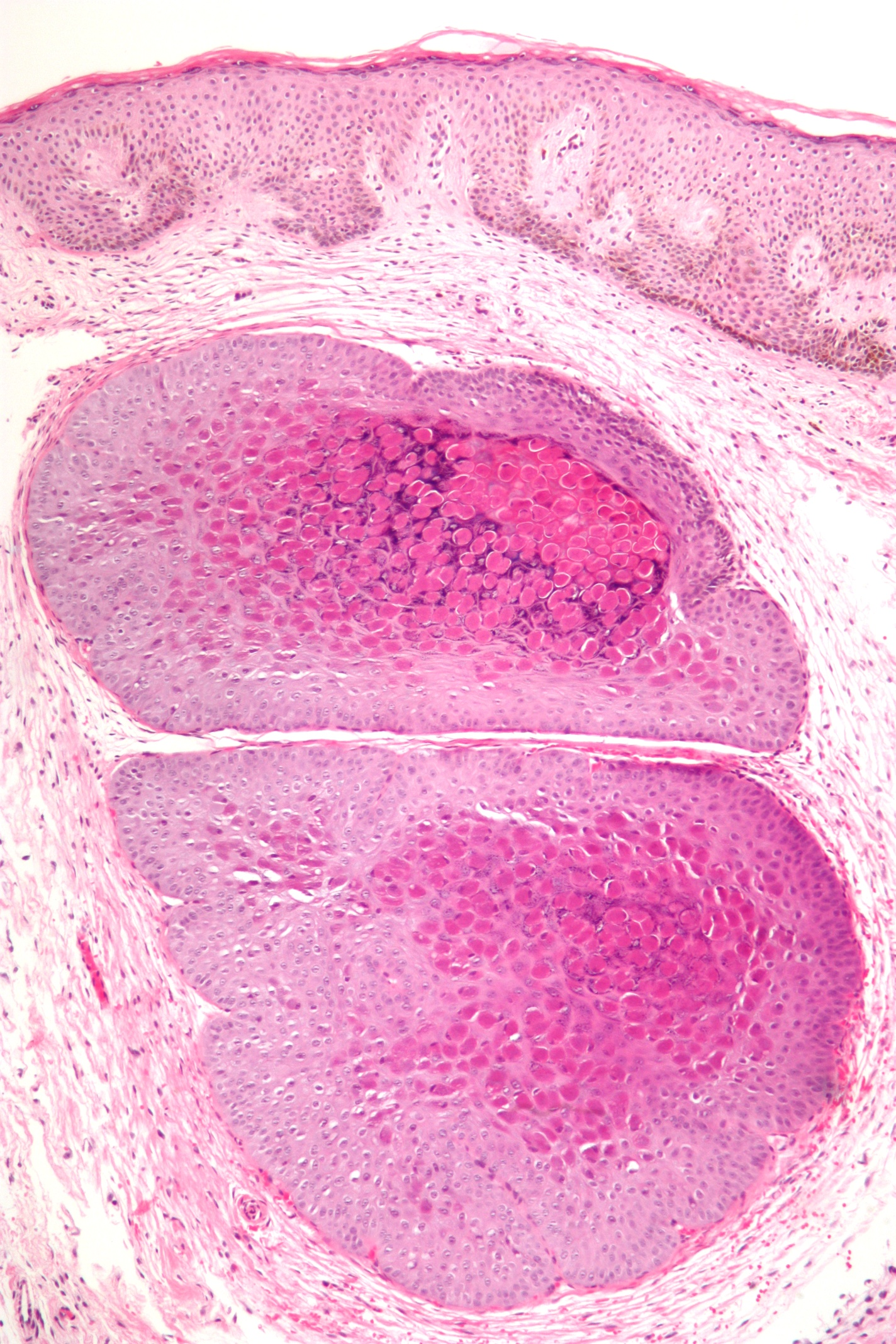 Low magnification micrograph of a molluscum contagiosum lesion. H&E stain. Molluscum cantagiosum is caused by the molluscum contagiosum virus (MCV) and leads to the formation of "molluscum bodies" in the epidermis above the stratum basale. The micrograph shows mollosum bodies, which consist of large cells with: Abundant granular eosinophilic cytoplasm (which contain accumulated virons). A small peripheral nucleus. Related images MC - low mag. MC - high mag.